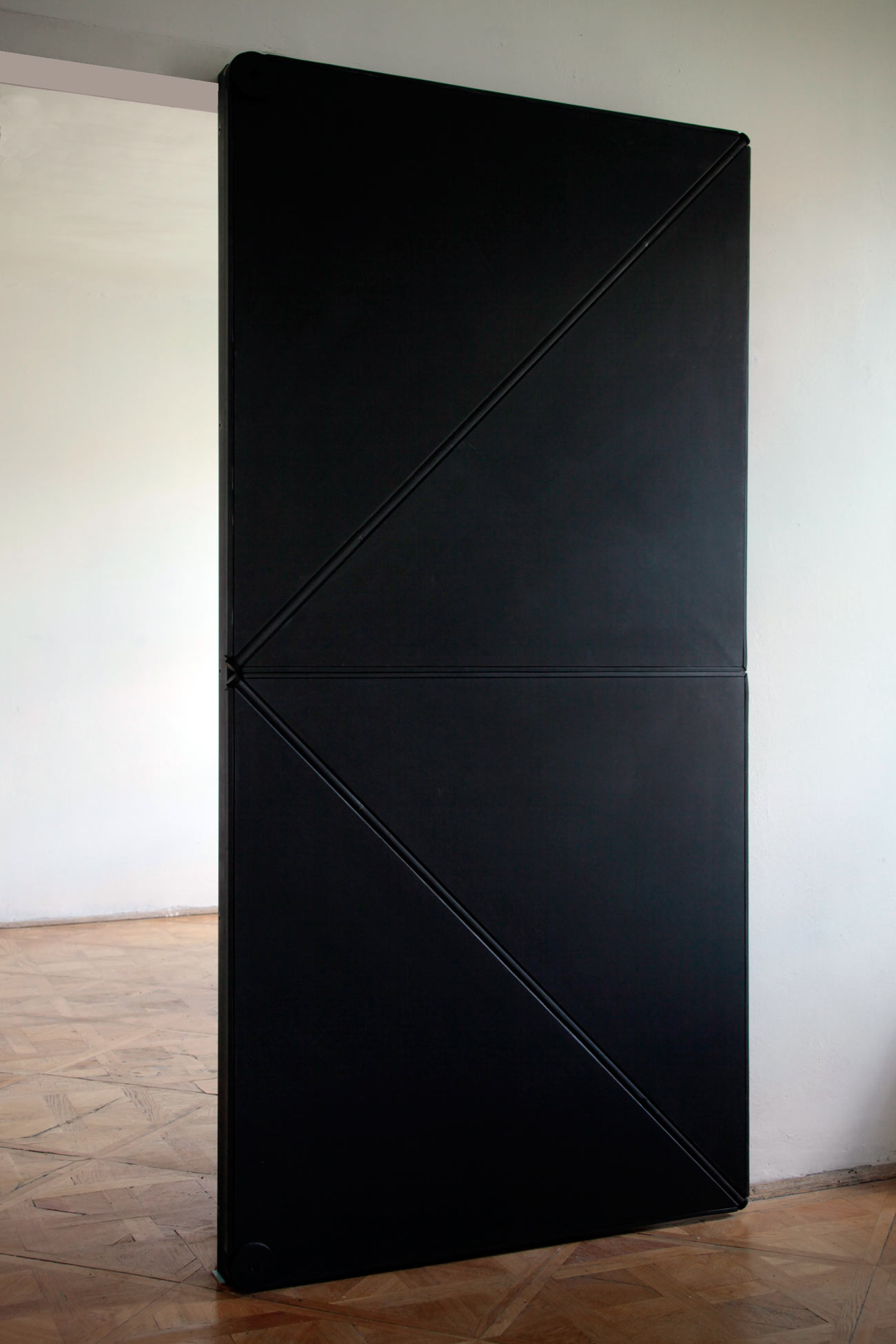 door made by Klemens Torggler